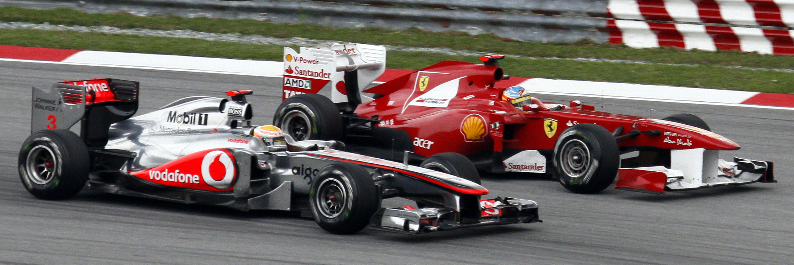 Formula One 2011 Rd.2 Malaysian GP: Fernando Alonso (Ferrari) and Lewis Hamilton (McLaren) during the race.